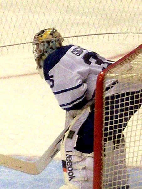 Taken at a Leafs game at the ACC vs. Ottawa